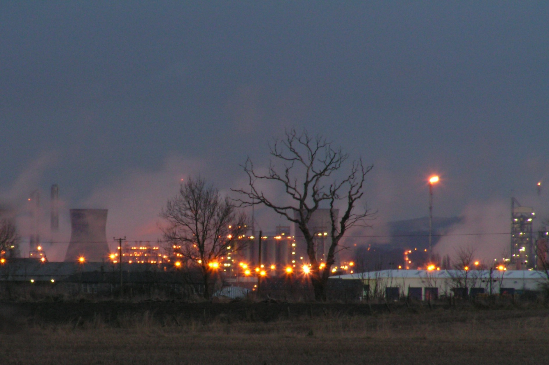 Grangemouth at dusk